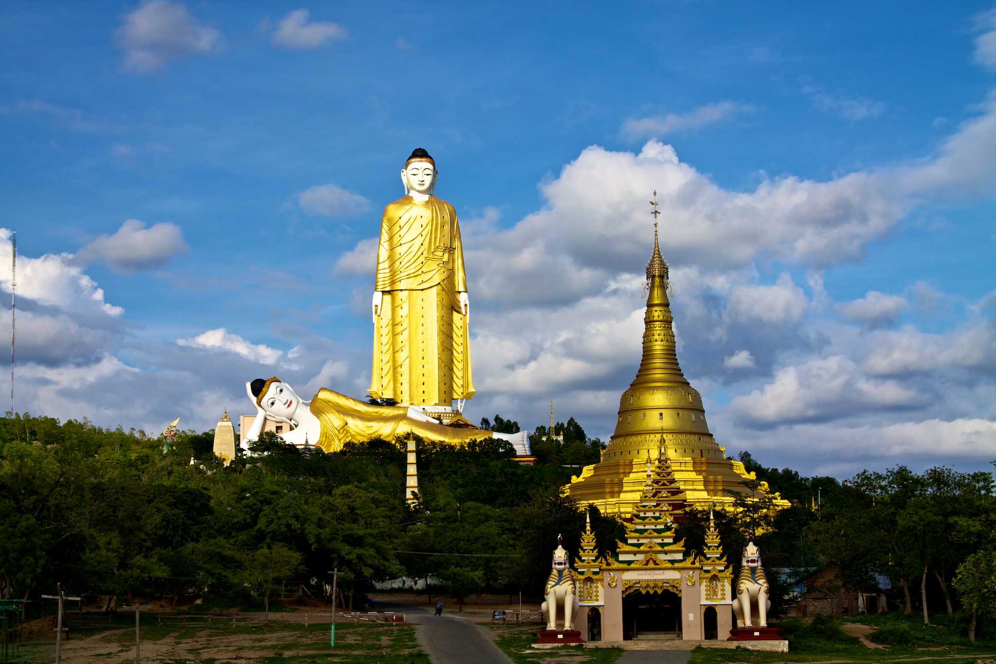 Bodhi Tataung is a new and massive monument complex still being built (as of 2010). The standing Buddha rising over the jungle is a whopping 423 ft high. Those squares in the statue are actually the windows for each floor. You will eventually be able to go up inside it, but at the time I was there, the elevator wasn't open and working yet. In front of the standing Buddha is a 312 ft reclining Buddha, the 430 ft golden Aung Setkya Paya and over 1000 smaller stupas. What was even more amazing about the site was that as big as it was, I was the only person there for most of my visit, like visiting Disney World by yourself. It was weird.